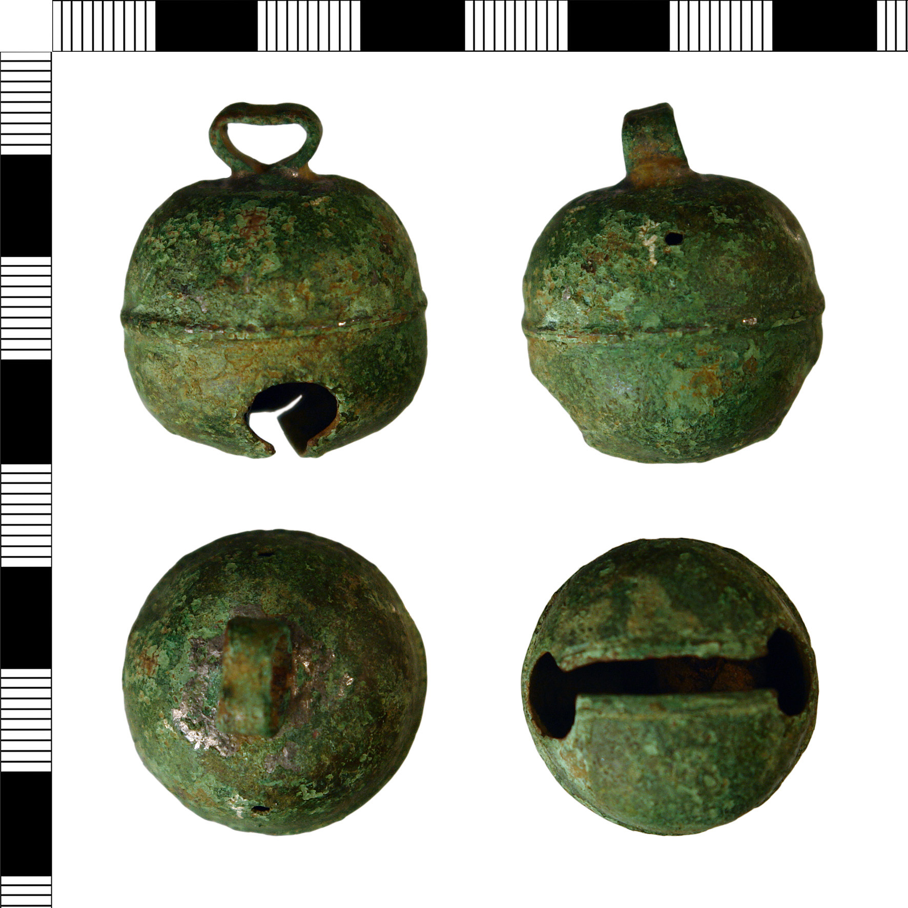 Sheet copper-alloy bell, possibly tinned, with an iron pellet within. It has a loop at the top formed from a strip of sheet metal soldered to the body of the bell. A slot links two sounding holes in the lower hemisphere, with a slightly thickened edge to both slot and holes while two small blow holes occur in the upper part of the upper hemisphere. A corroded iron ball remains within the bell to serve as its clapper. A medial rib marks the union of the hemispheres. A silvery tint resembling tin plating is especially prominent at the top of the bell and on its mid rib, and may indicate the use of solder to join the components together rather than a decorative coating. The composite construction is deemed to indicate an early date (Blunt nd), and if this is sustained the bell is in superb condition for its age with a still-appealing tinkle. Suggested date: Medieval, 1250-1450. Diameter: 28.1mm, Height: 32.5mm, Thickness: 1mm, Weight: 16.23gms.